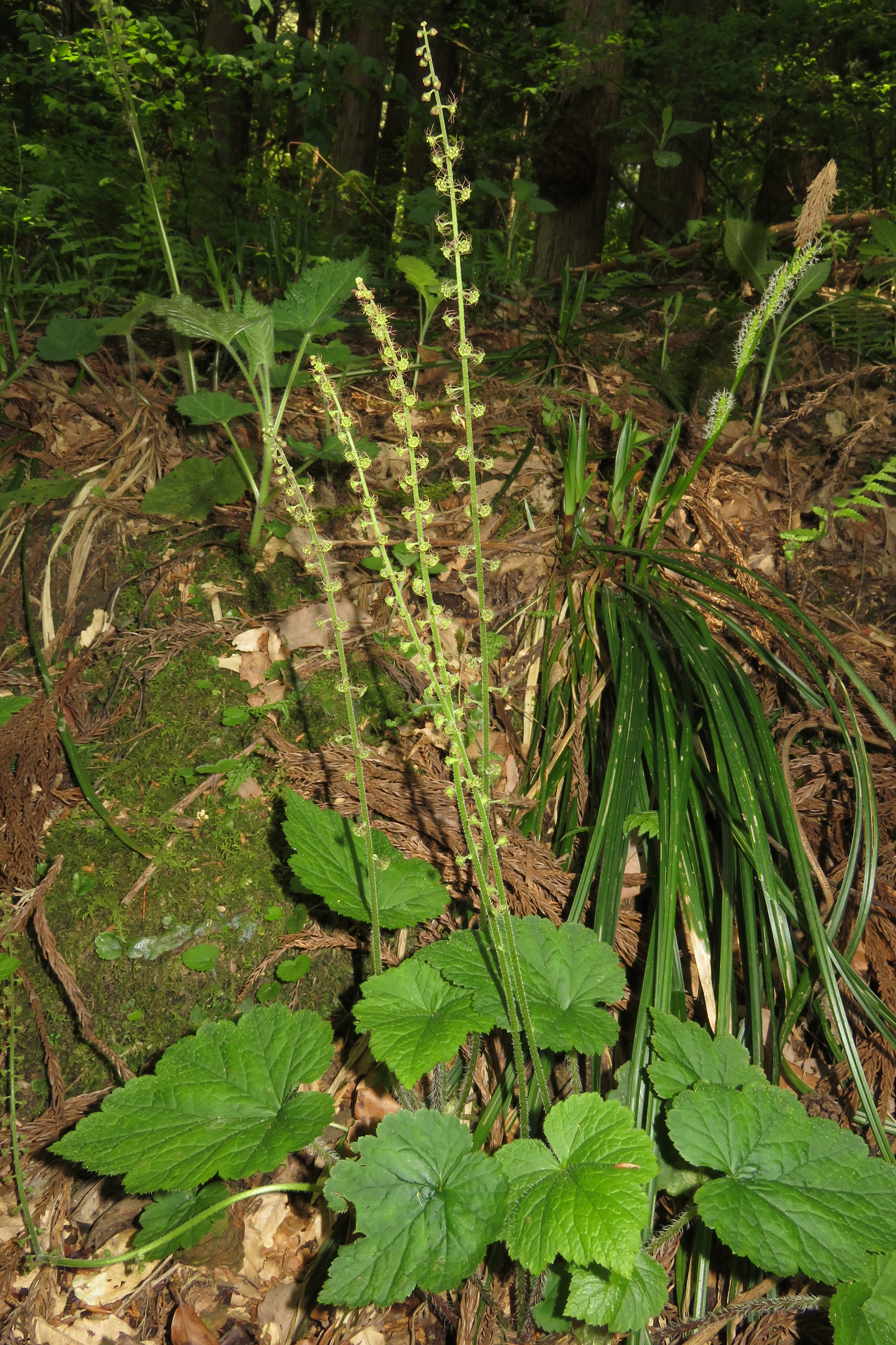 Mitella koshiensis, Kaetsu area, Niigata pref., Japan